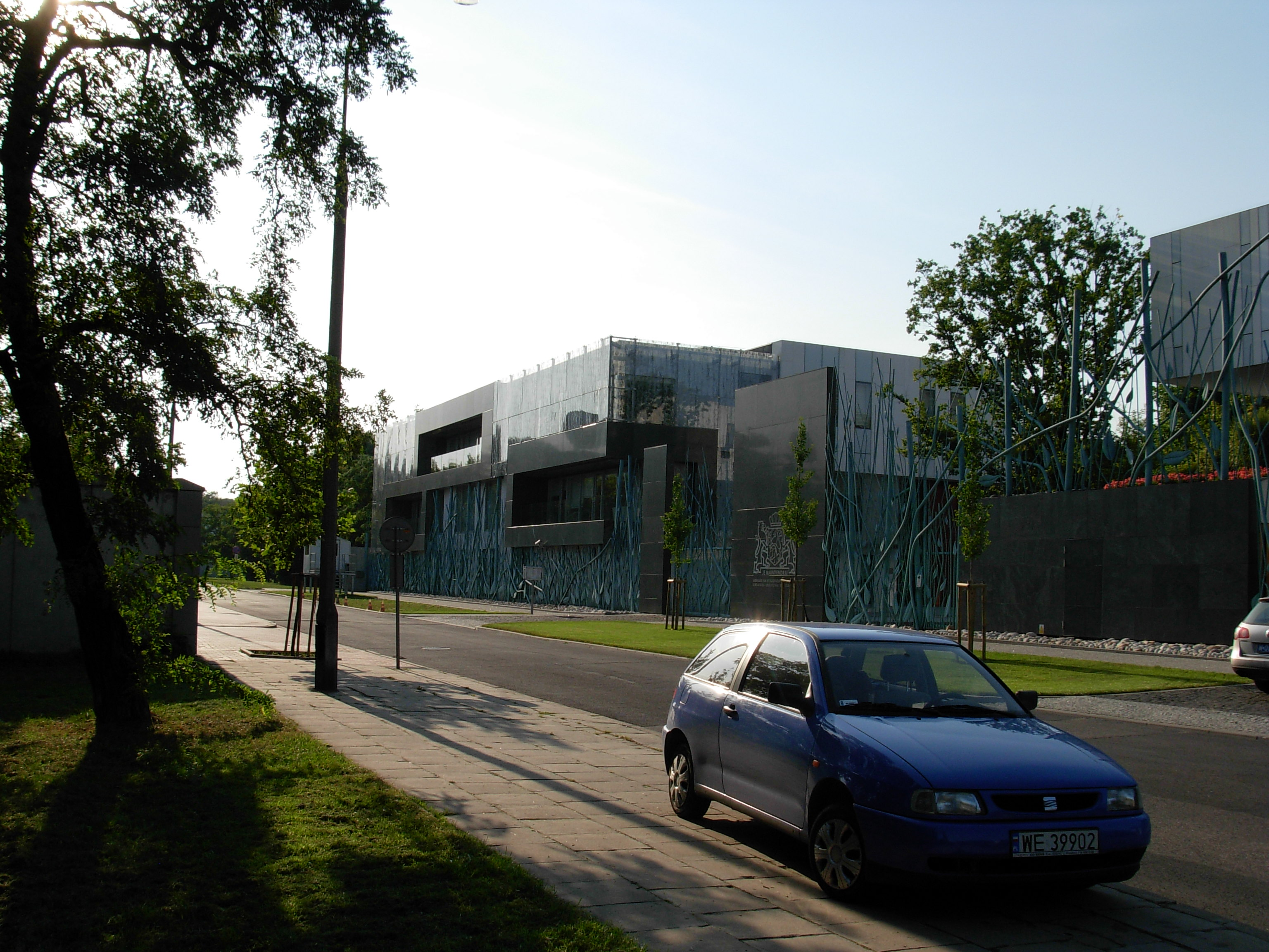 Dutch Embassy in Warsaw